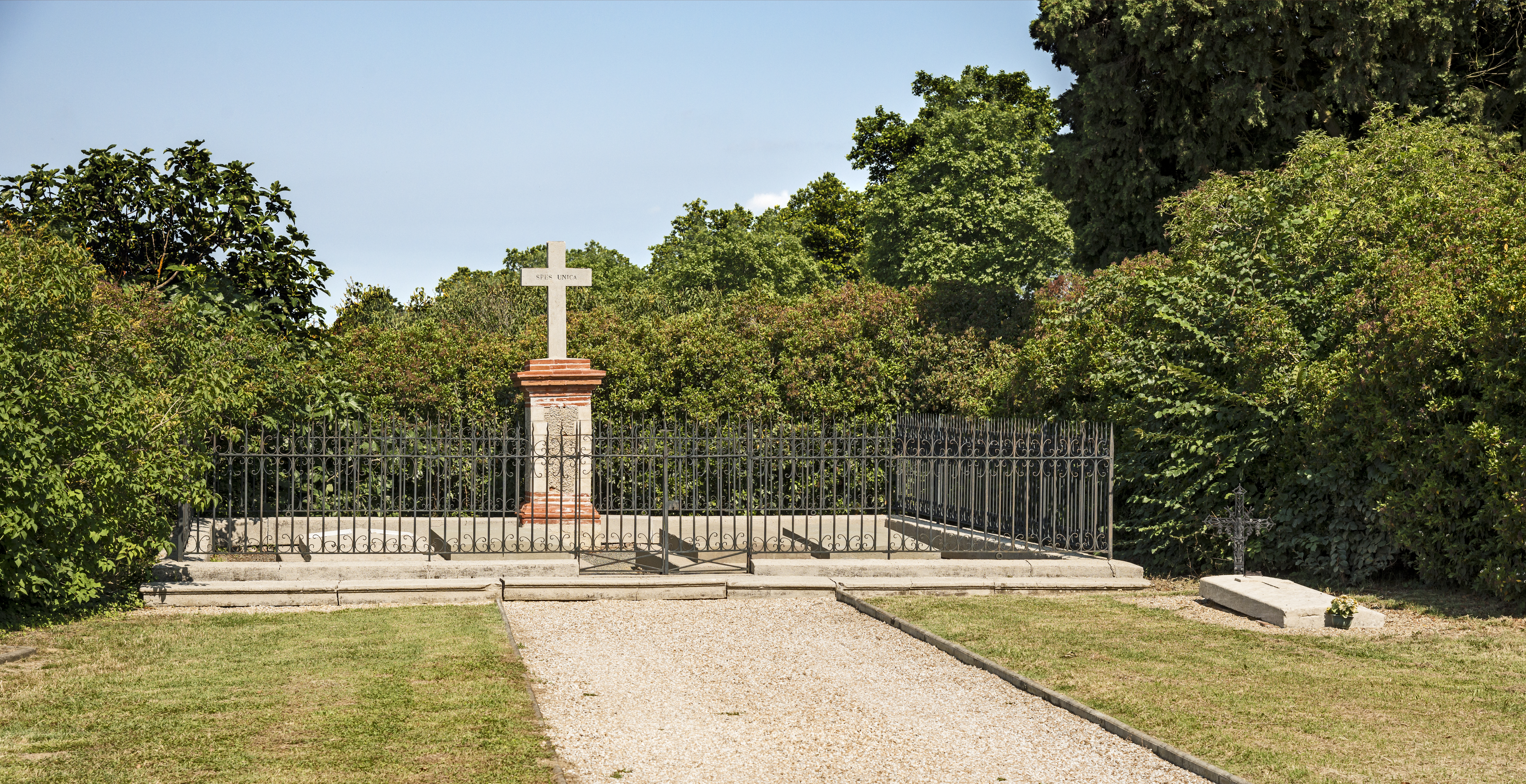 Church Saint-Sernin-des-Rais, Verfeil, France. Graves of the Model granddaughters. Camille and Madeleine de Malaret, granddaughters of the Comtesse de Segur, who served as the model for the novel.